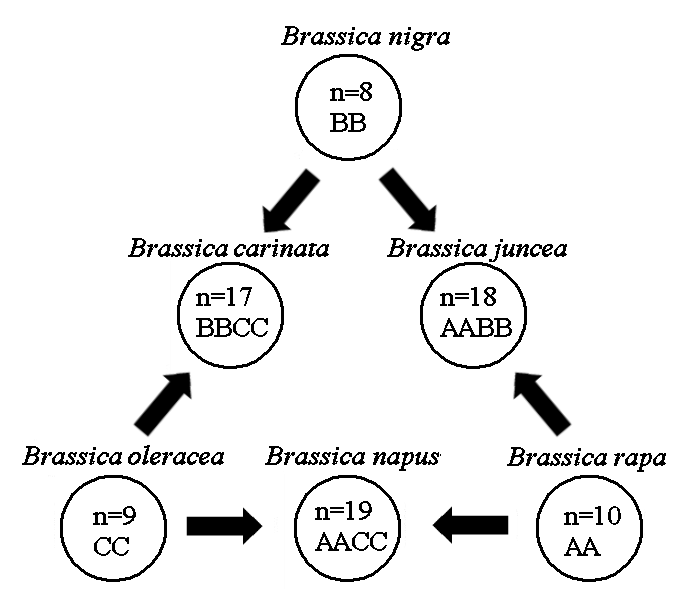 ancestors of Brassica spp.